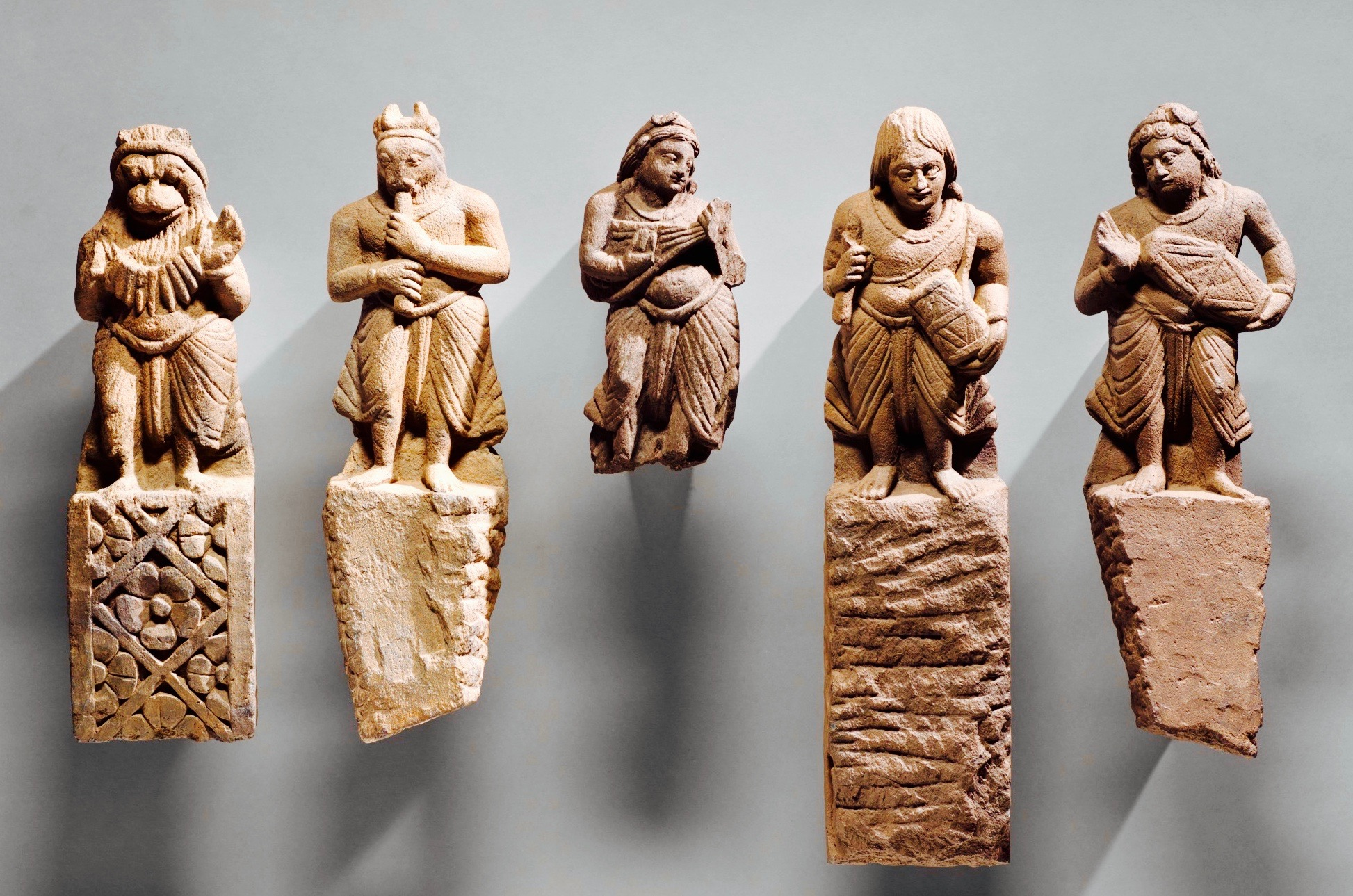 Pakistan, Swat Valley, Gandhara region, 4th-5th century Sculpture Gray schist Various sizes Purchased with funds provided by Harry and Yvonne Lenart (AC1992.254.1-.5) South and Southeast Asian Art